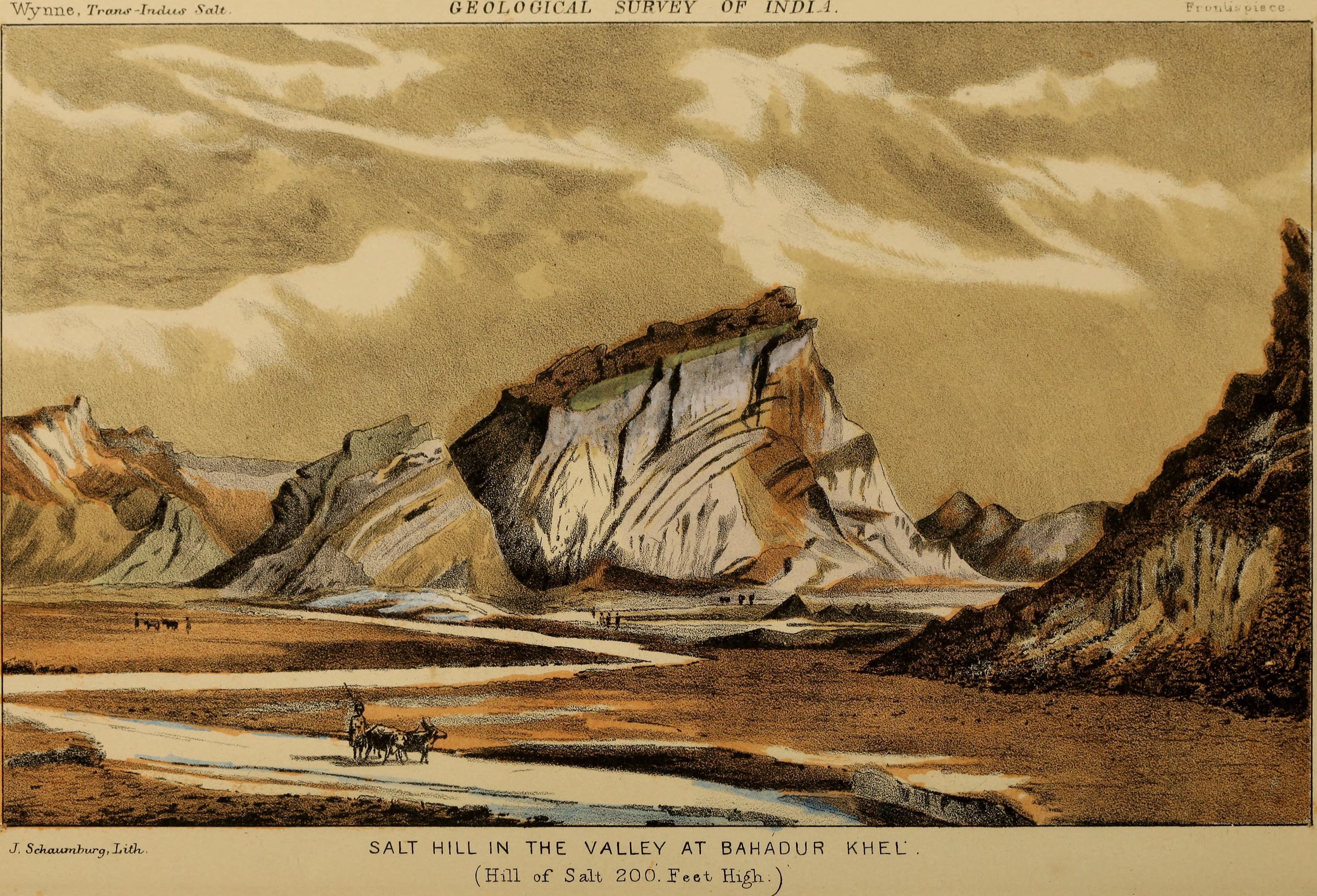 Title: Memoirs of the Geological Survey of India Year: 1859 (1850s) Authors: Geological Survey of India Subjects: Geology Mines and mineral resources Publisher: Calcutta : Pub. by order of the Governor-General of India Text Appearing Before Image: MEMOIRS OF THE GEOLOGICAL STIKYEY OP INDIA. Text Appearing After Image: MEMOIRS GEOLOGICAL SURVEY OF INDIA. VOL. XI, Pt. 2. PUBLISHED BT ORDER OF HIS EXCELLENCY THE GOVERNOR GENERAL OF INDIA IN COUNCIL,TNDEB THE DIEECTION OF THOMAS OLDHAM, LL.D., Fellow of the Royal and Geological Societies of London; Memher of the Royal Irish Academys Hon. Mem. of the Leop-Carol. Academy of Natural Sciences; of the Isis, Dresden ; of the Roy, Geol. Soc. of Cornwall; of the Soc. Imp. de Natur. Moskow; Corr. Mem. of Zool. Soc, Lond., £e., $c. SUPBEINTENDENT OF THE GEOLOGICAL SUBVEY OF INDIA. CALCUTTA: PRINTED FOE THE GOVERNMENT OF INDIA. SOLD AT THE GEOLOGICAL SURVEY OFFICE, OFFICE OF SUPERINTENDENT OF GOVERNMENT PRINTING AND BY ALL BOOKSELLERS LONDON: TRUBNER & CO. MDCCCIIXT. CALCUTTA: OFFICE OF THE ST/PEKINTENDENT OF GOVERNMENT FEINTING. 1875. CONTENTS The Trans-Indus Salt Region in the Kohat District, ly A. B.Wynne, f. g. s. l., Geological Survey of India, toith an Appendix onthe Kohat Mines, or Quarries, by H. Warth, ph. d., InlandCustoms Department. PART I. Intro